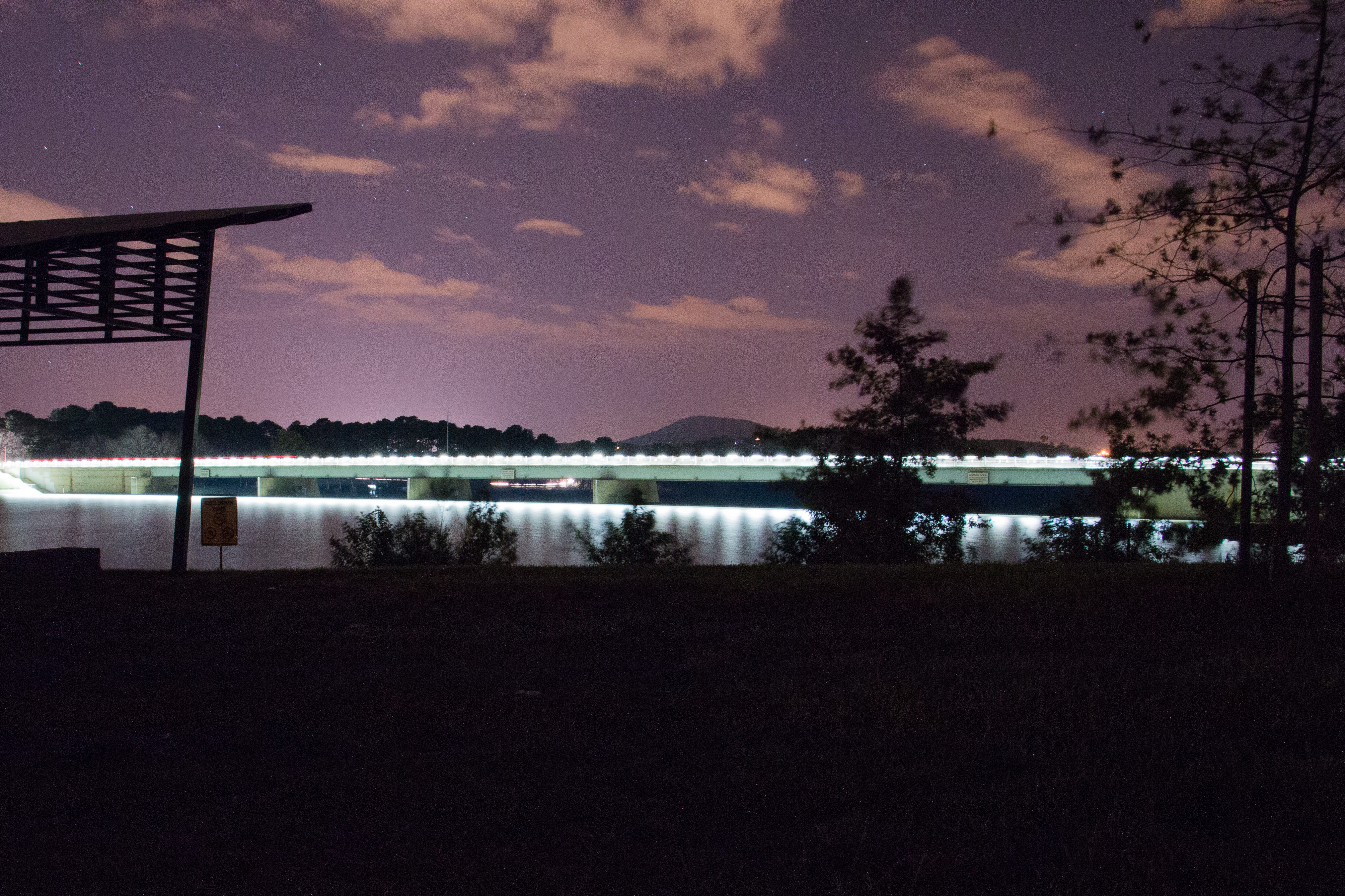 Scivener Dam at night